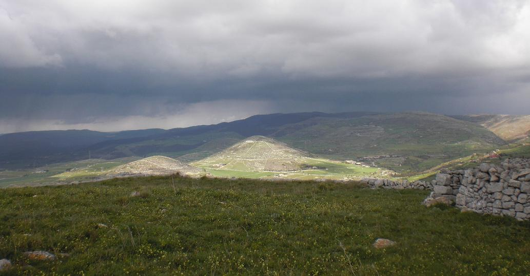 Monte Raci in the sun and Monte Racello next to it. In the Sicilian province of Ragusa. March 2009.